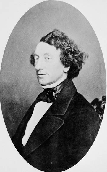 Hon. John A. Macdonald